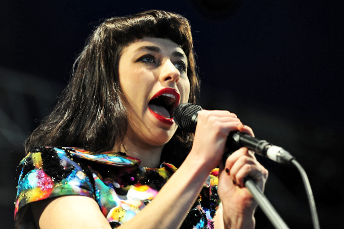 Parklife Festival 2011